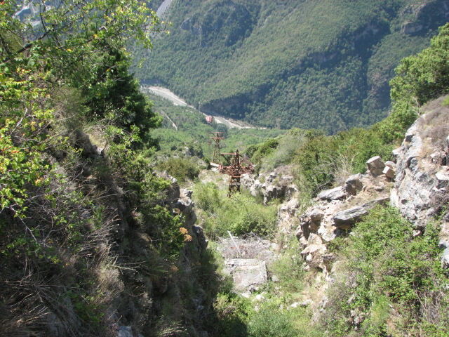 Aerial lift way of the Maginot Line Work of Rimplas (Alpes-Maritimes)